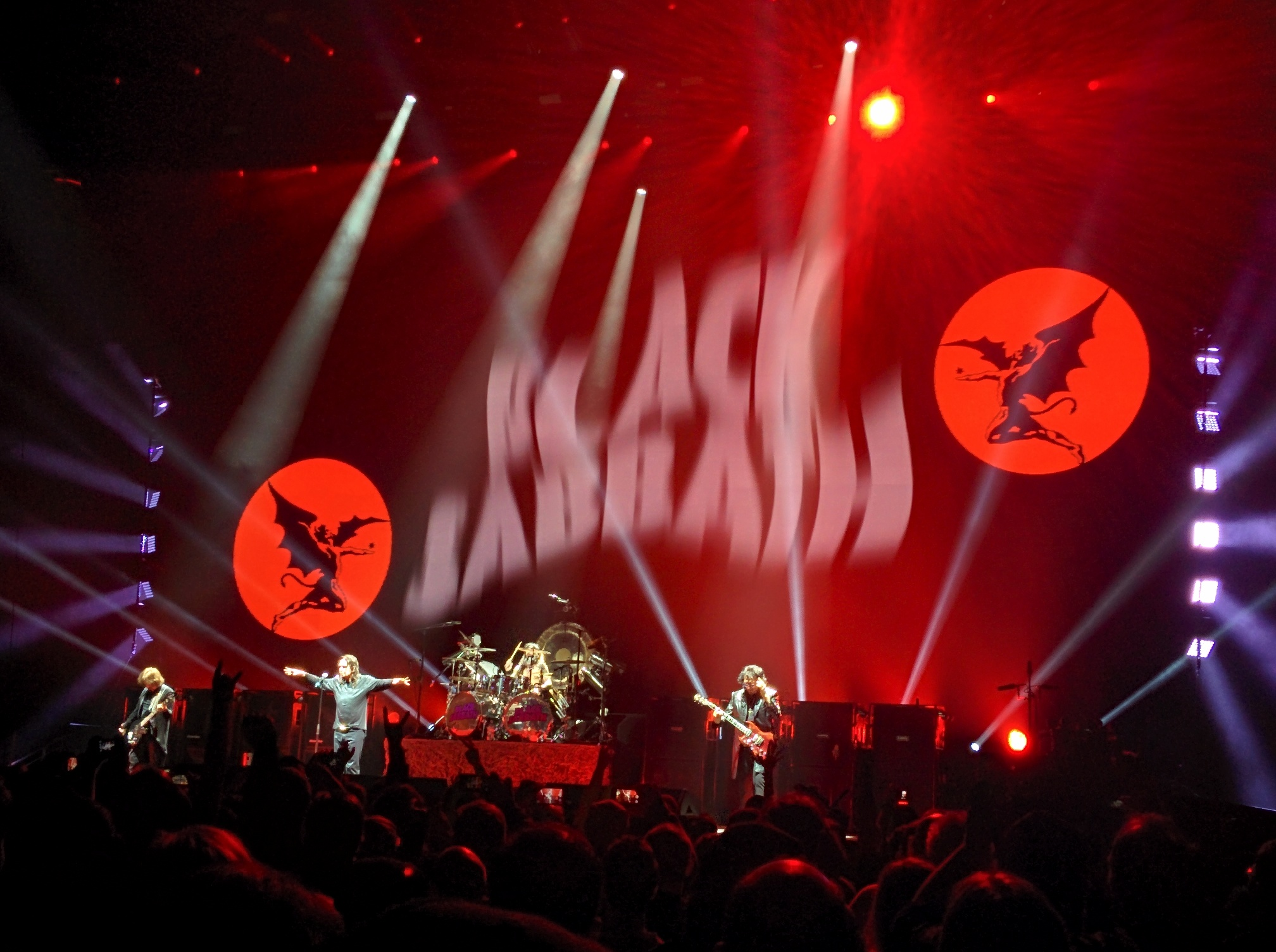 Black Sabbath performing at Brooklyn's Barclays Center in March 2014.